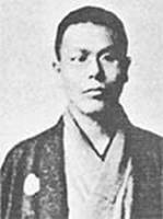 Toshihiko Sakai (1871-1933), japanese Anarchist.